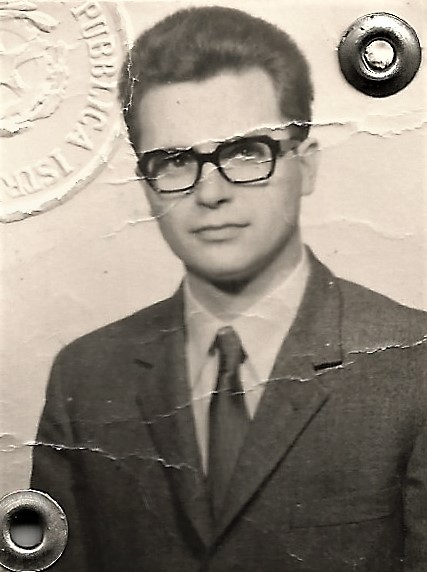 Piero Floriani (Arsia, 19 January 1942 – Pisa, 9 October 2018) - italian teacher and politician